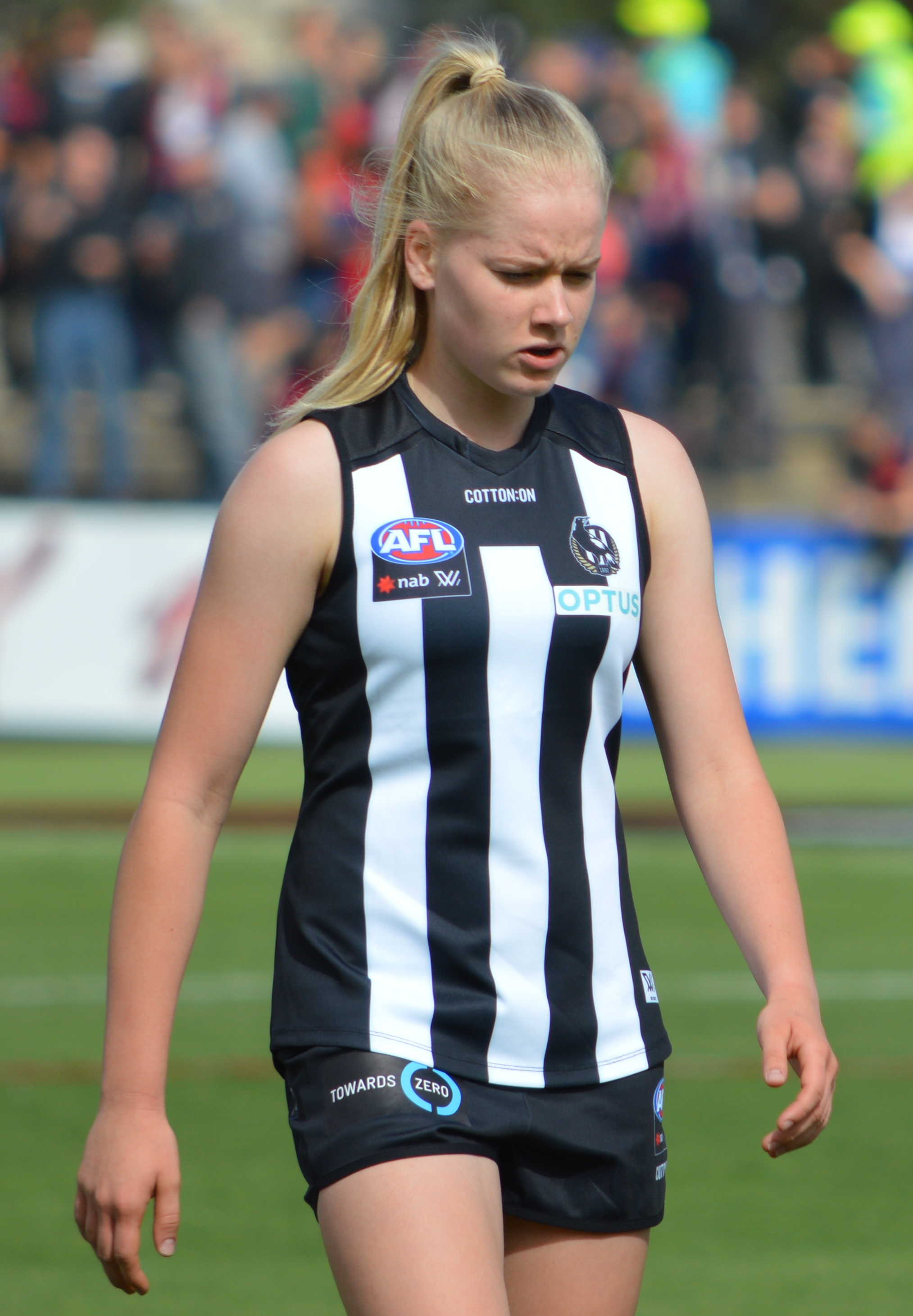 Lauren Butler with Collingwood during a match against Melbourne at Victoria Park in round 2 of the 2019 AFL Women's season.